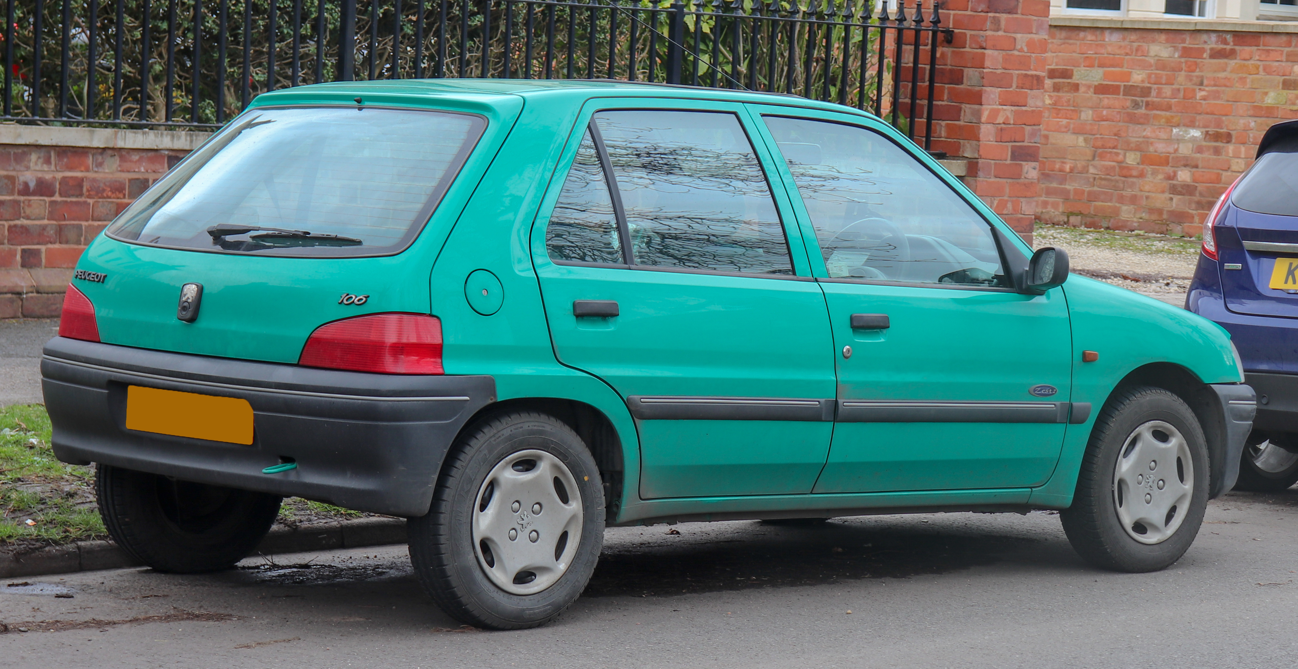 1998 Peugeot 106 XND Zest 2 1.5 Rear Taken in Leamington Spa